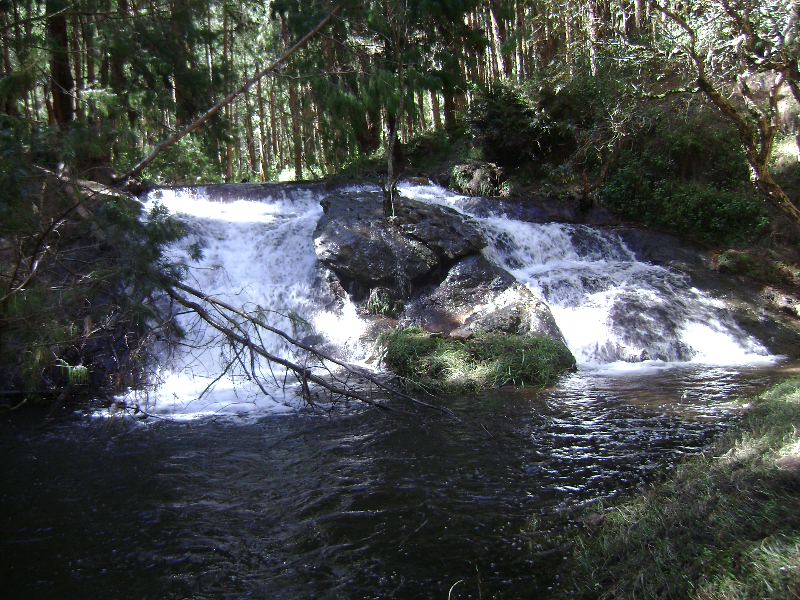 Neptune Falls and Pool at .5 km trail on left, off Poombarai road past Gundar Forest Dept. Nursery